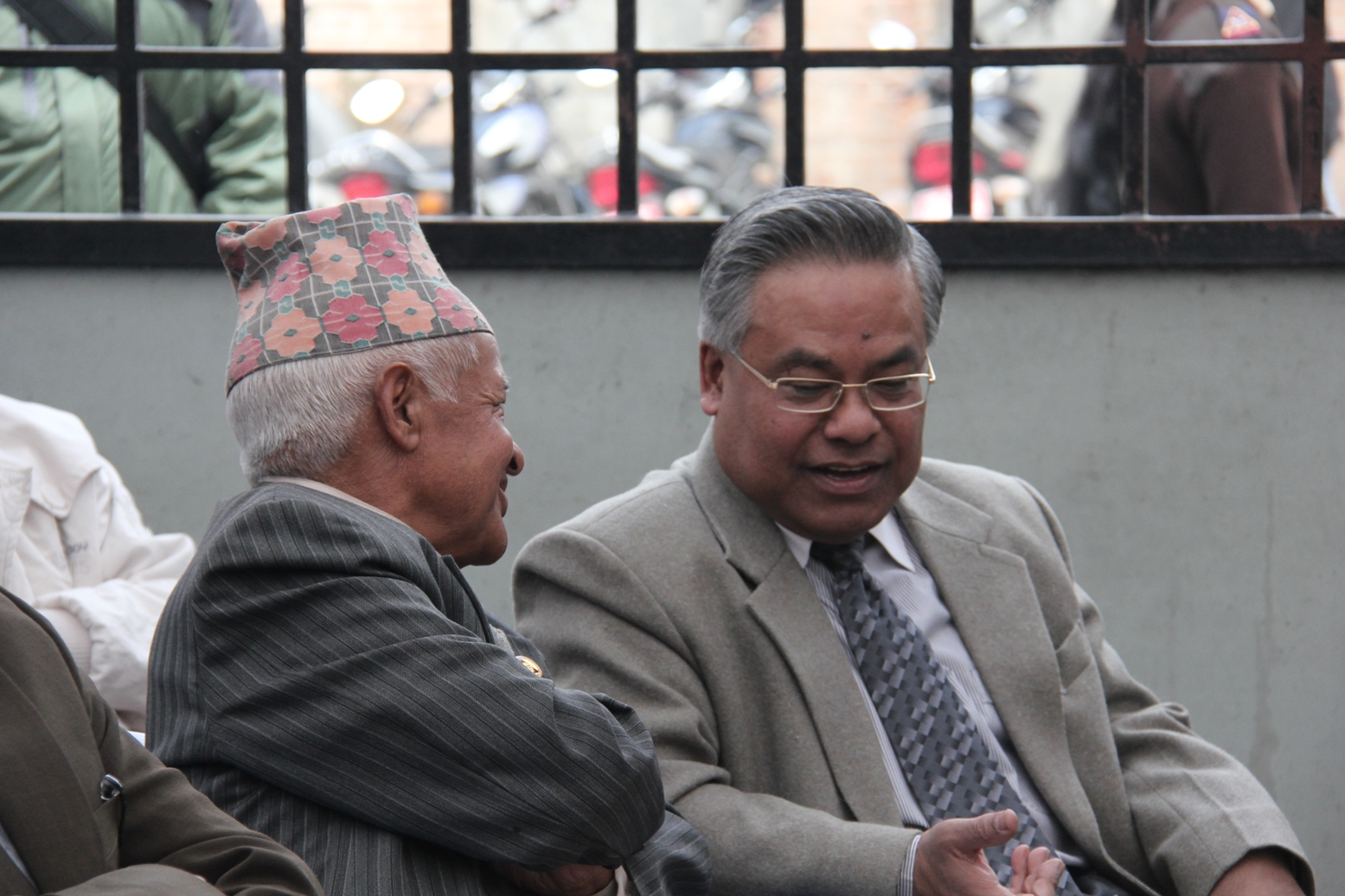 Sugat Ratna Kansakar (right) in anniversary program of Nepal Telecom